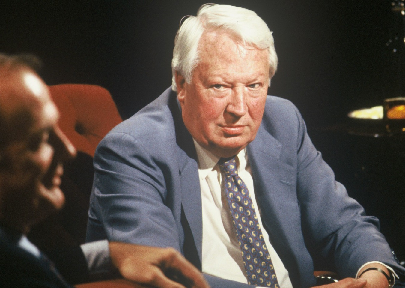 Former British Prime Minister Edward Heath appearing on After Dark on 10 June 1989. Other guests included Peter Ustinov, Kenneth Minogue, Shirley Williams, Richard Perle, Alastair Morton and Josef Joffe. More here.